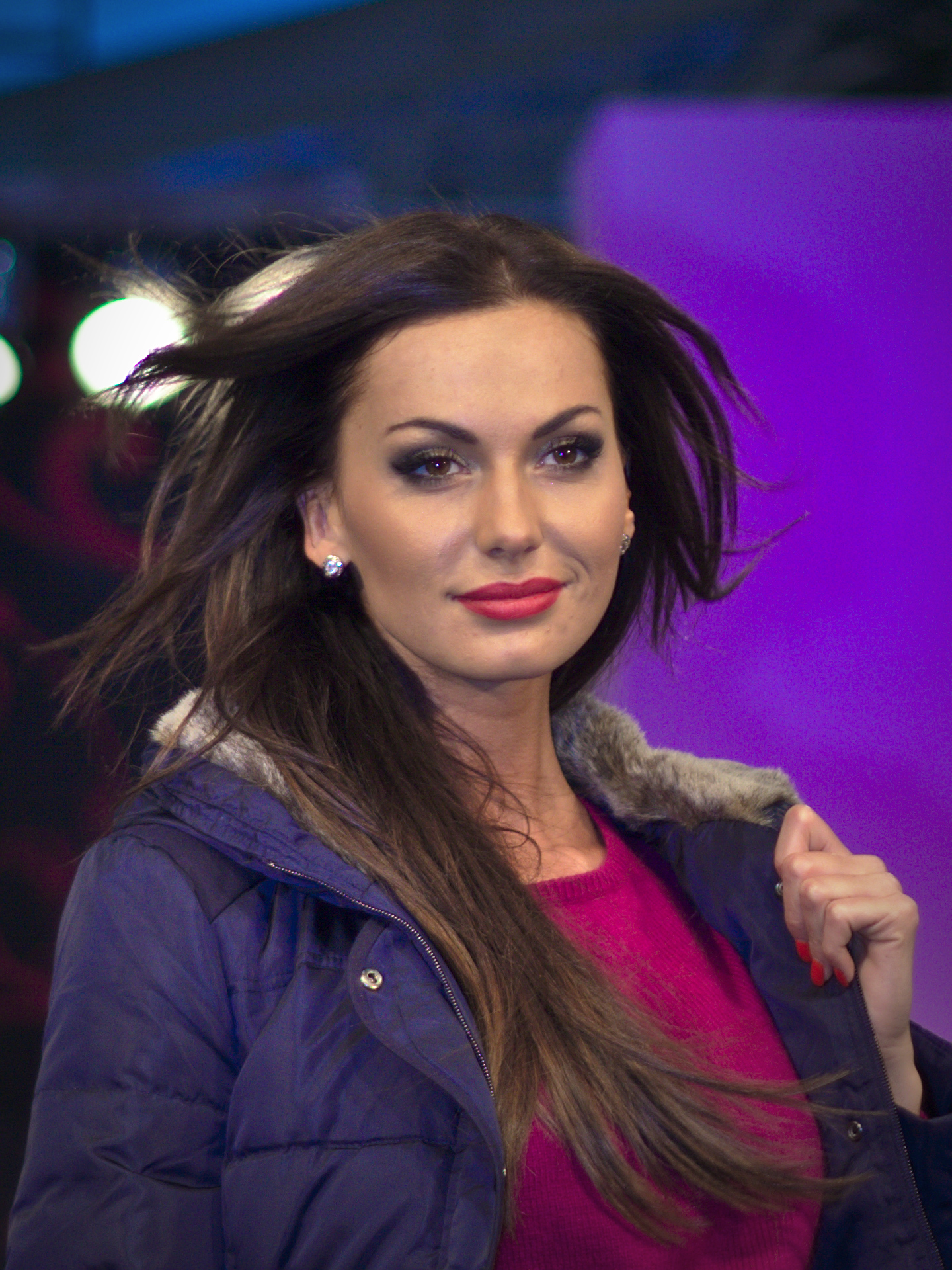 Eliška Bučková at Olympia Fashion Show 2013